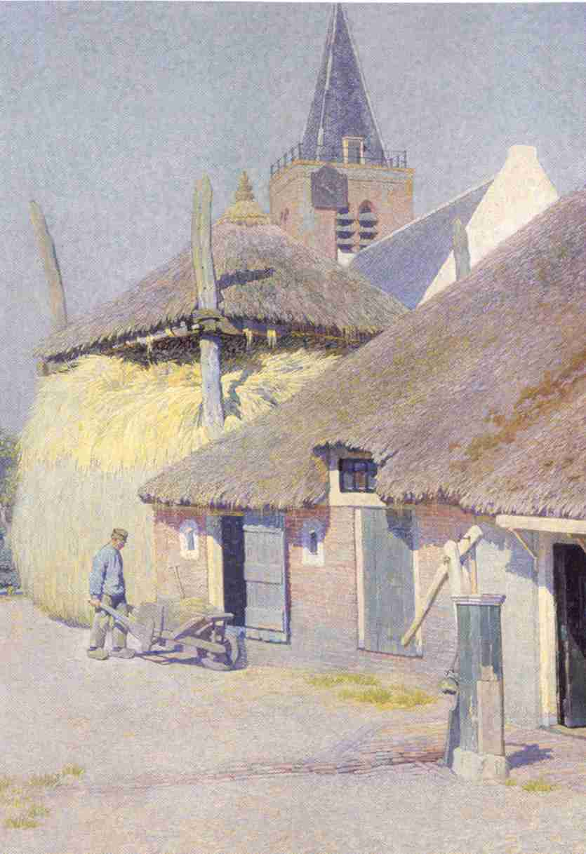 Dorpsgezicht in Blaricum